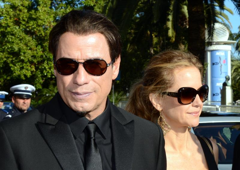 John Travolta and Kelly Preston at the Cannes film festival, for the 20th anniversary of "Pulp fiction"